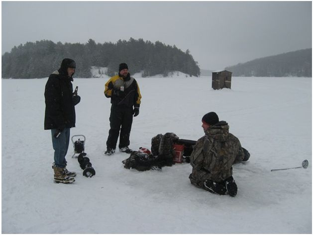 People ice fishing on the frozen surface of what is called the 'North Bay' of Ontario's Paudash Lake.